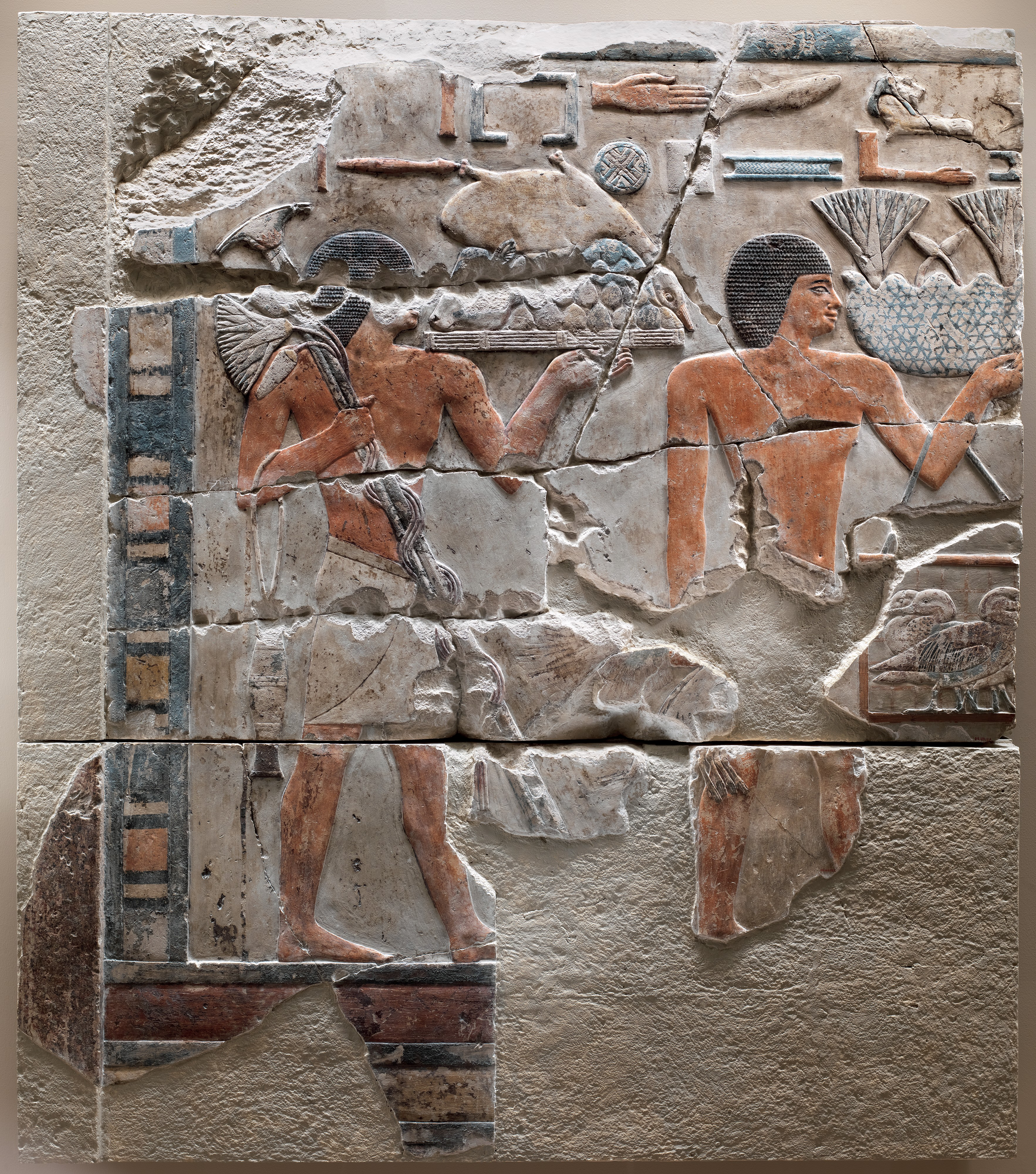 Relief, Senwosret I, offering bearers